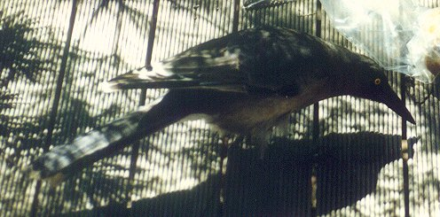 Grey Currawong, 1990, Blue Mountains Photo - Cas Liber